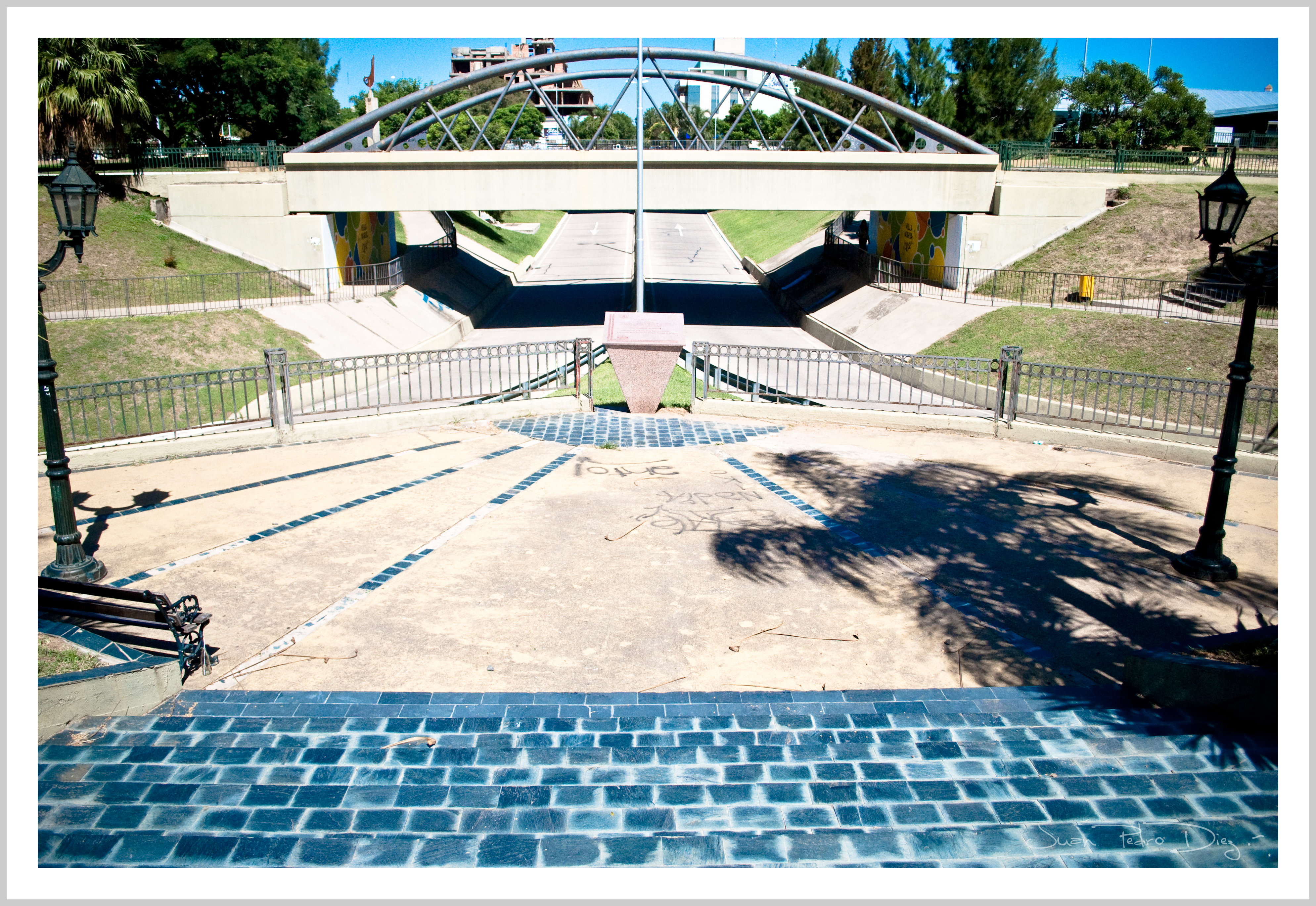 Park and underpass in Villa María, Córdoba Province.